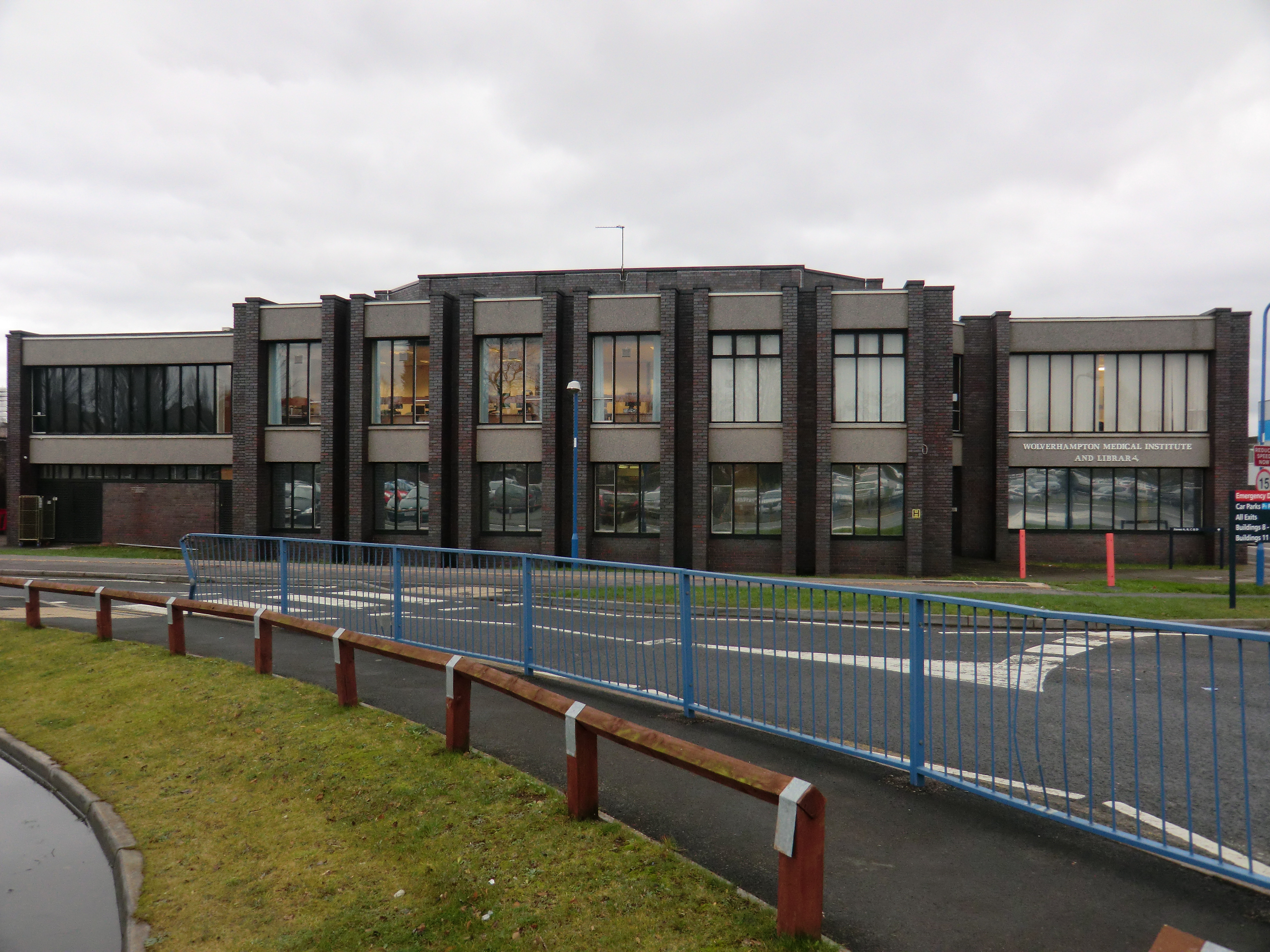 Wolverhampton Medical Institute of New Cross Hospital, Wolverhampton